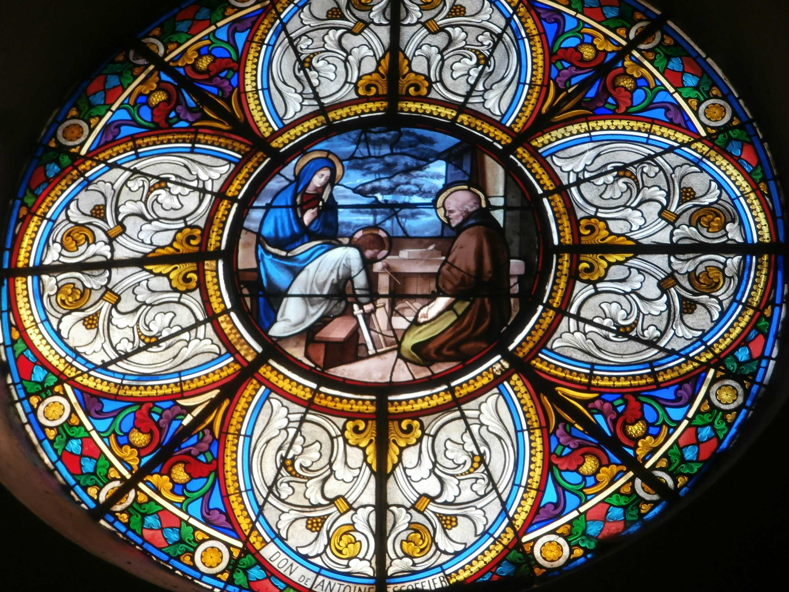 Holy craftspeople on a leadlight window, Saint-Grégoire de Vernosc-lès-Annonay